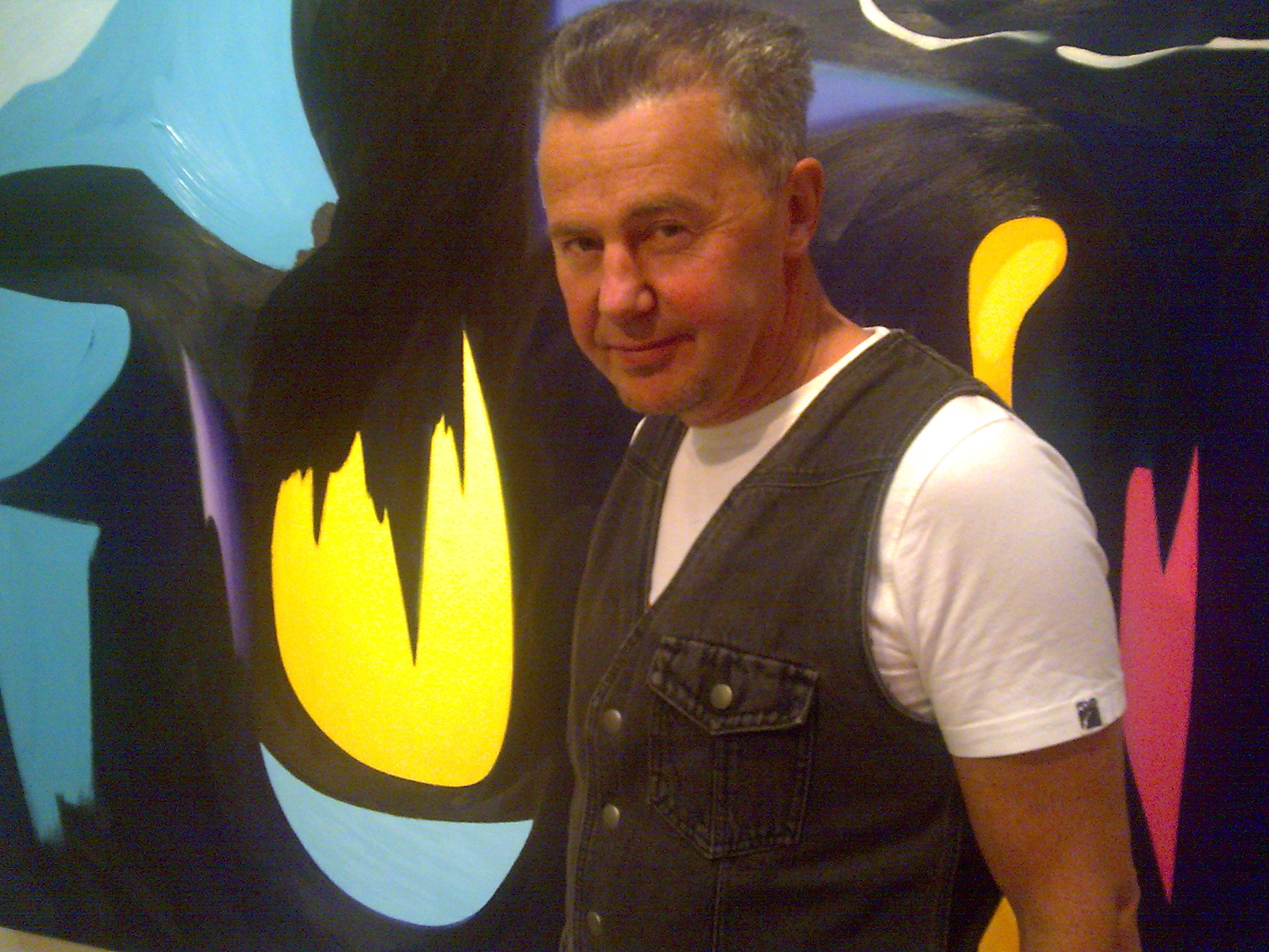 Artist Martyn Jones in his studio.